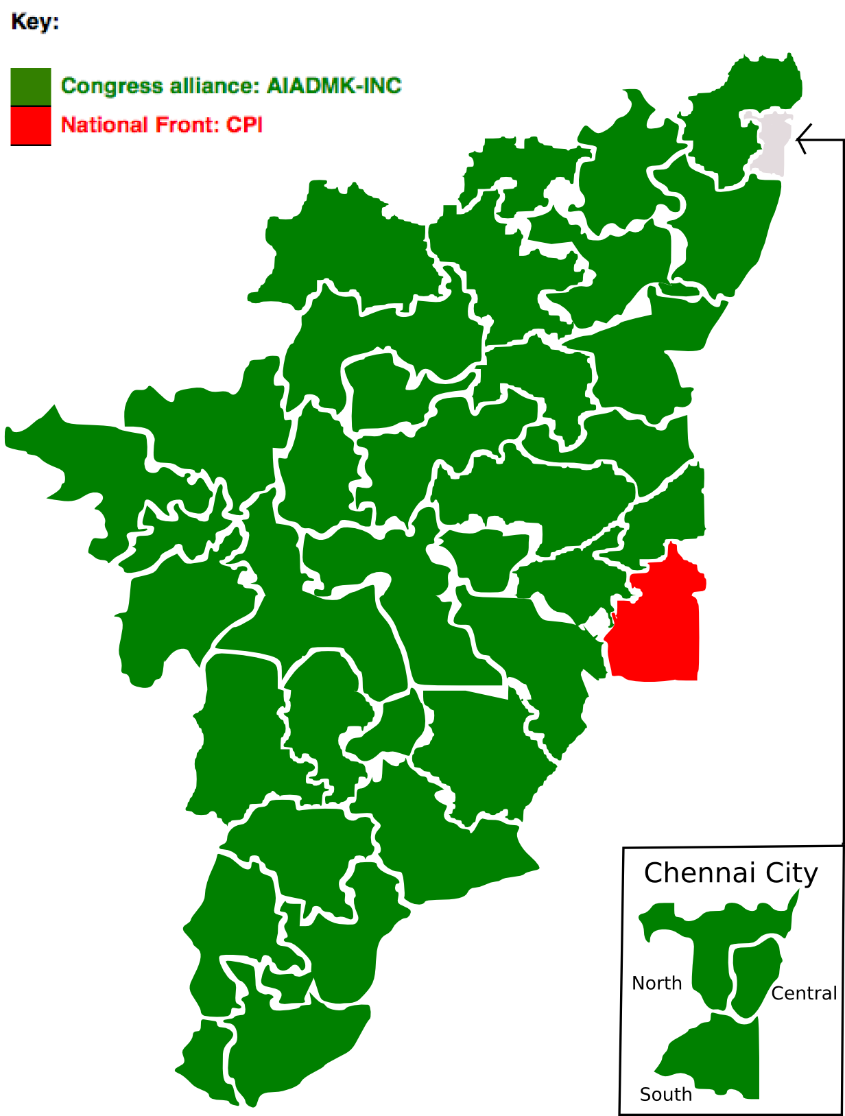 1989 Lok Sabha Election map for Tamil Nadu. Map is based on ECI drawn map. Results are based on ECI website.